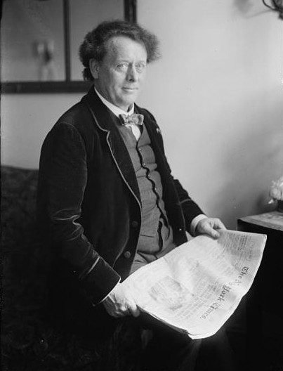 Willem Mengelberg (1871 – 1951), Dutch conductor, holding The New York Times